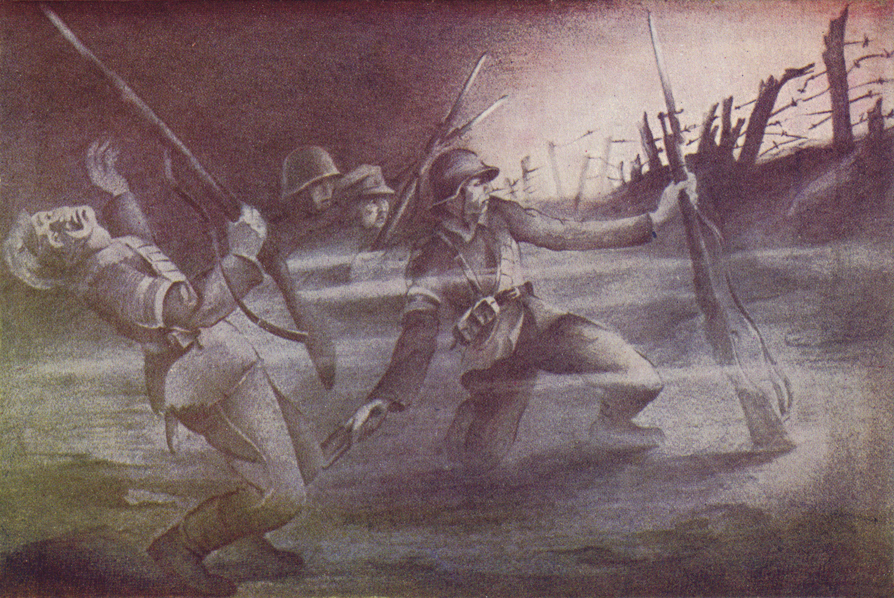 Estonian forces near Krasnaya Gorka. Kuperjanov Partisan Battalion attacking the enemy's fortified positions in October 1919. Printed by J. Zimmermann in Tallinn.